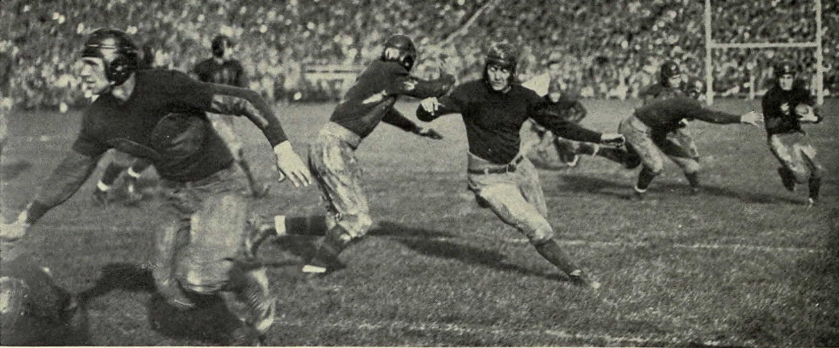 Photograph of a Michigan running play against Navy in 1925. George Babcock is in the center of the frame about to block a Navy player. Bo Molenda is to the left "evidently looking for bigger game ahead" This work is in the public domain because it was published in the United States between 1923 and 1963 and although there may or may not have been a copyright notice, the copyright was not renewed. Unless its author has been dead for the required period, it is copyrighted in the countries or areas that do not apply the rule of the shorter term for US works, such as Canada (50 pma), Mainland China (50 pma, not Hong Kong or Macao), Germany (70 pma), Mexico (100 pma), Switzerland (70 pma), and other countries with individual treaties. See Commons:Hirtle chart for further explanation. This work is in the public domain in the United States because it was published in the United States between 1923 and 1977 without a copyright notice. See this page for further explanation. Note that it may still be copyrighted in jurisdictions that do not apply the rule of the shorter term for US works (depending on the date of the author's death), such as Canada (50 p.m.a.), Mainland China (50 p.m.a., not Hong Kong or Macao), Germany (70 p.m.a.), Mexico (100 p.m.a.), Switzerland (70 p.m.a.), and other countries with individual treaties.